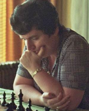 Nona Gaprindashvili, Interzonal Tournament 1982 in Bad Kissingen, Photographer Gerhard Hund.